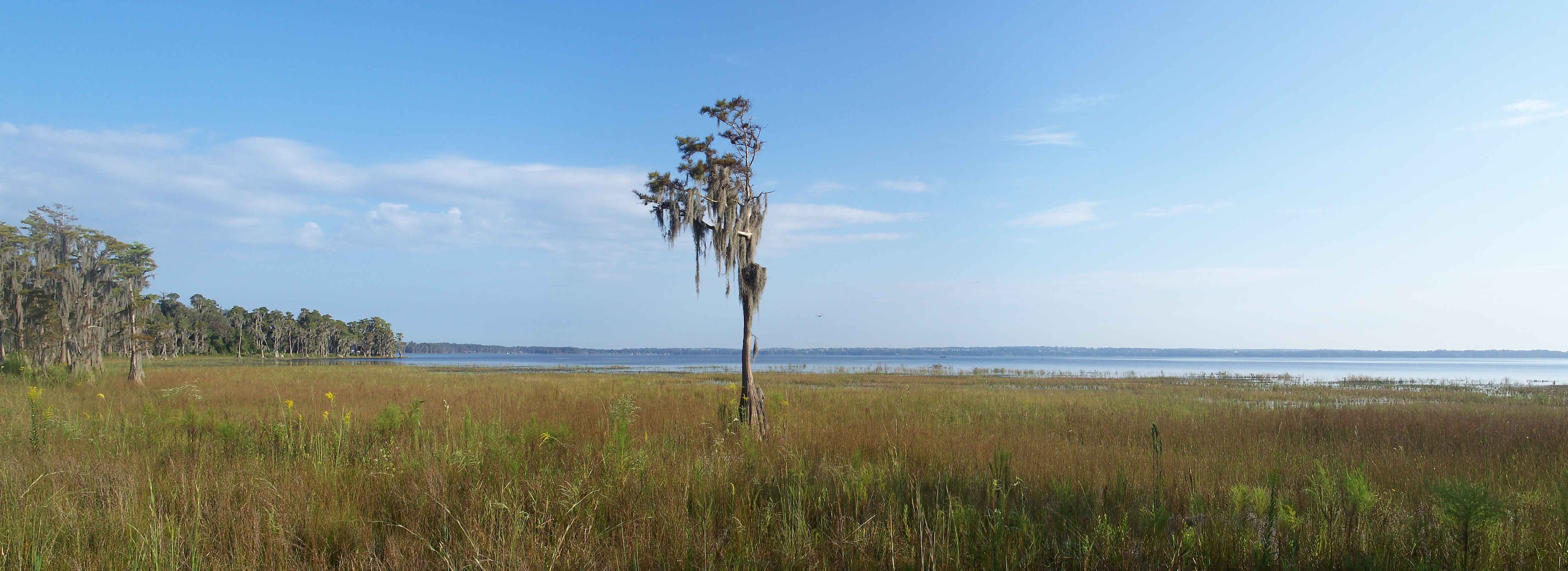 South of Clermont, Florida: Lake Louisa State Park Panorama view from west side of the park, looking north through northeast